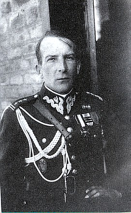 Col. Jerzy Błeszyński-Ferek, officer of Polish inteligence services before and during WW II,chief of Polish intelligence services in 1928, later attache militare of Poland in France